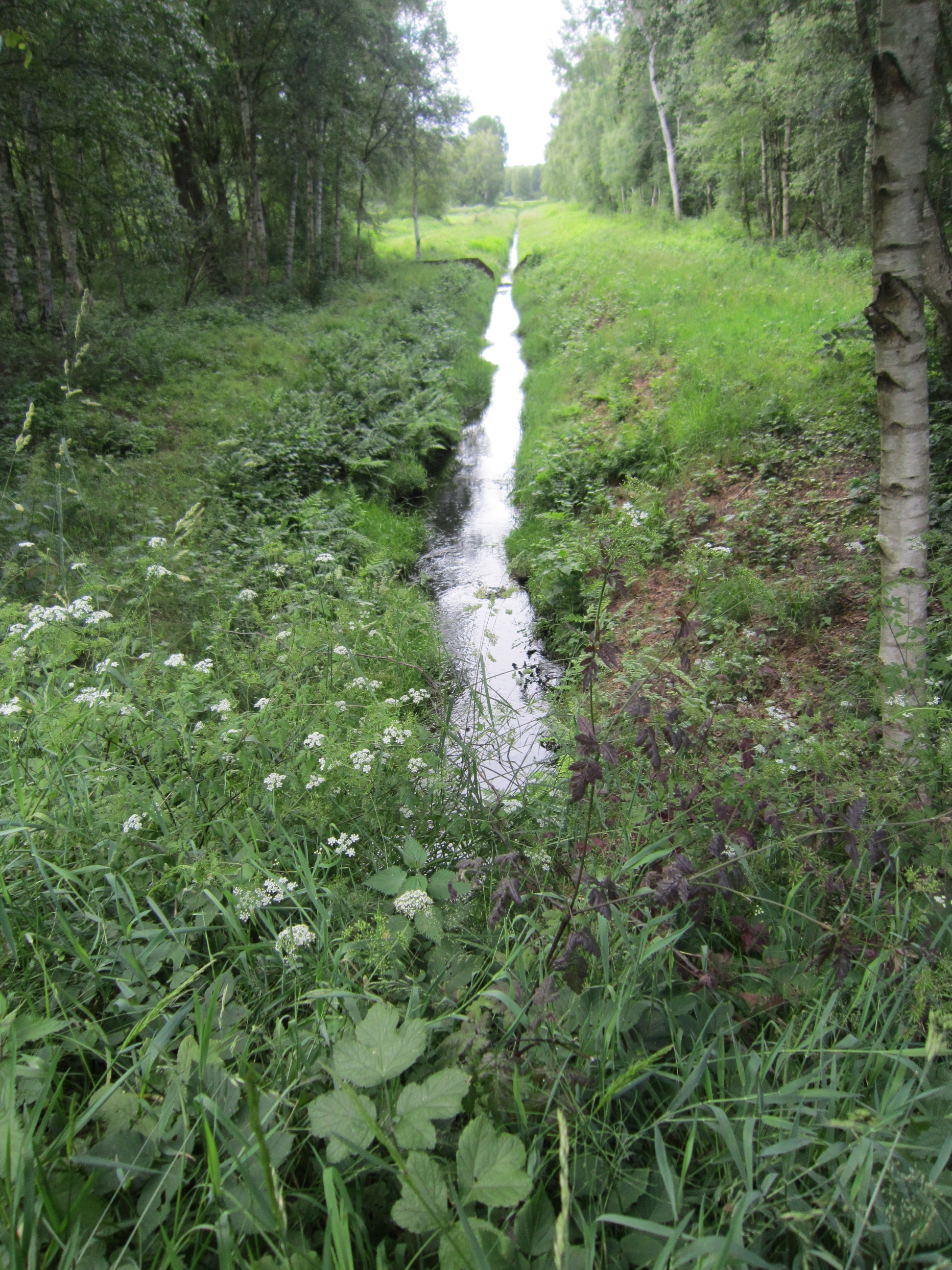 Creek "Dadau" north of the road between Lohne and Diepholz in Lower Saxony. On the left: Landkreis Vechta; on the right: Landkreis Diepholz